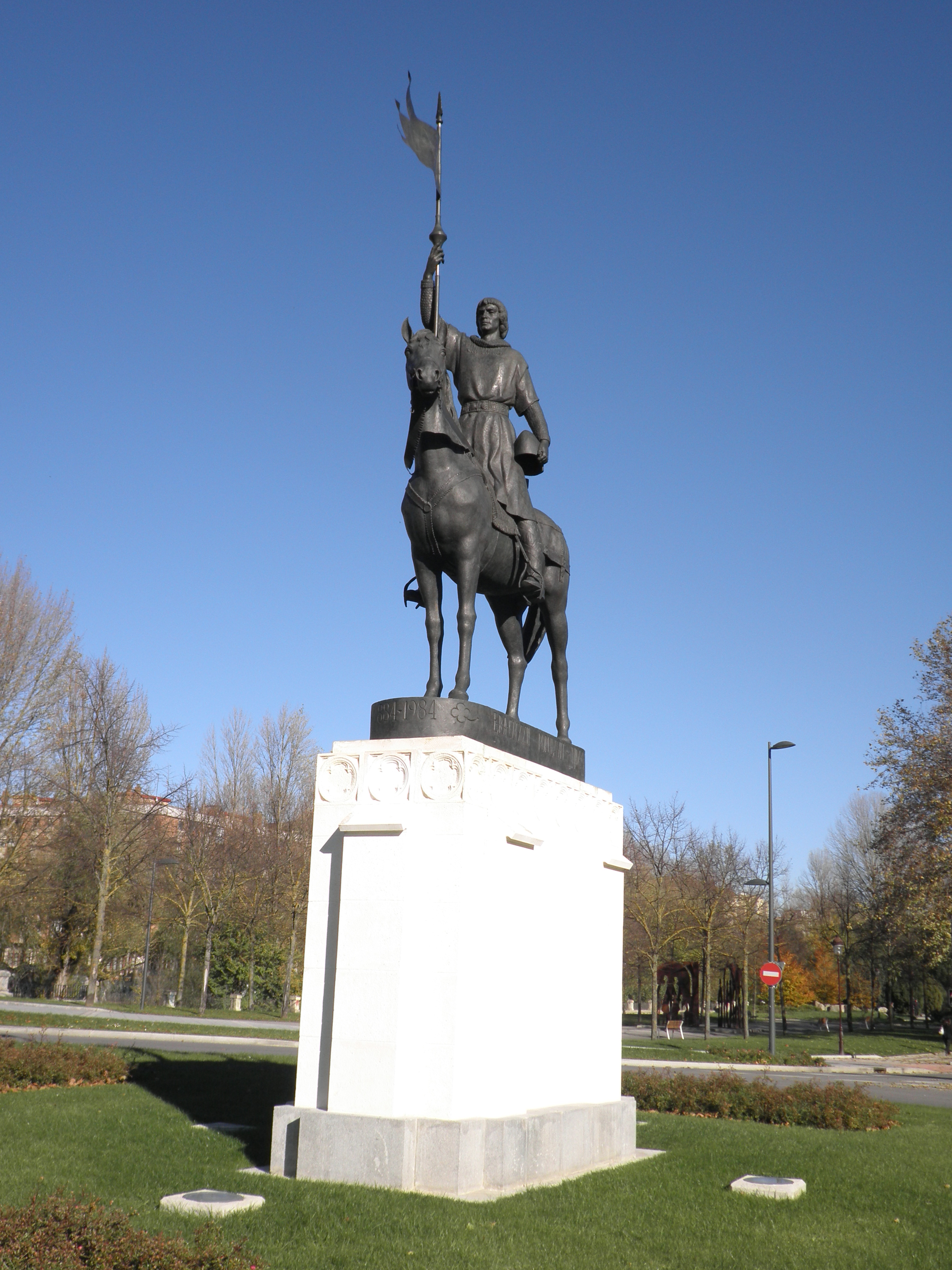 Equestrian statue in Burgos of the 2nd Count of Castile and founder of the city Diego Rodríguez Porcelos. Made in 1983 by sculptor Juan de Ávalos.